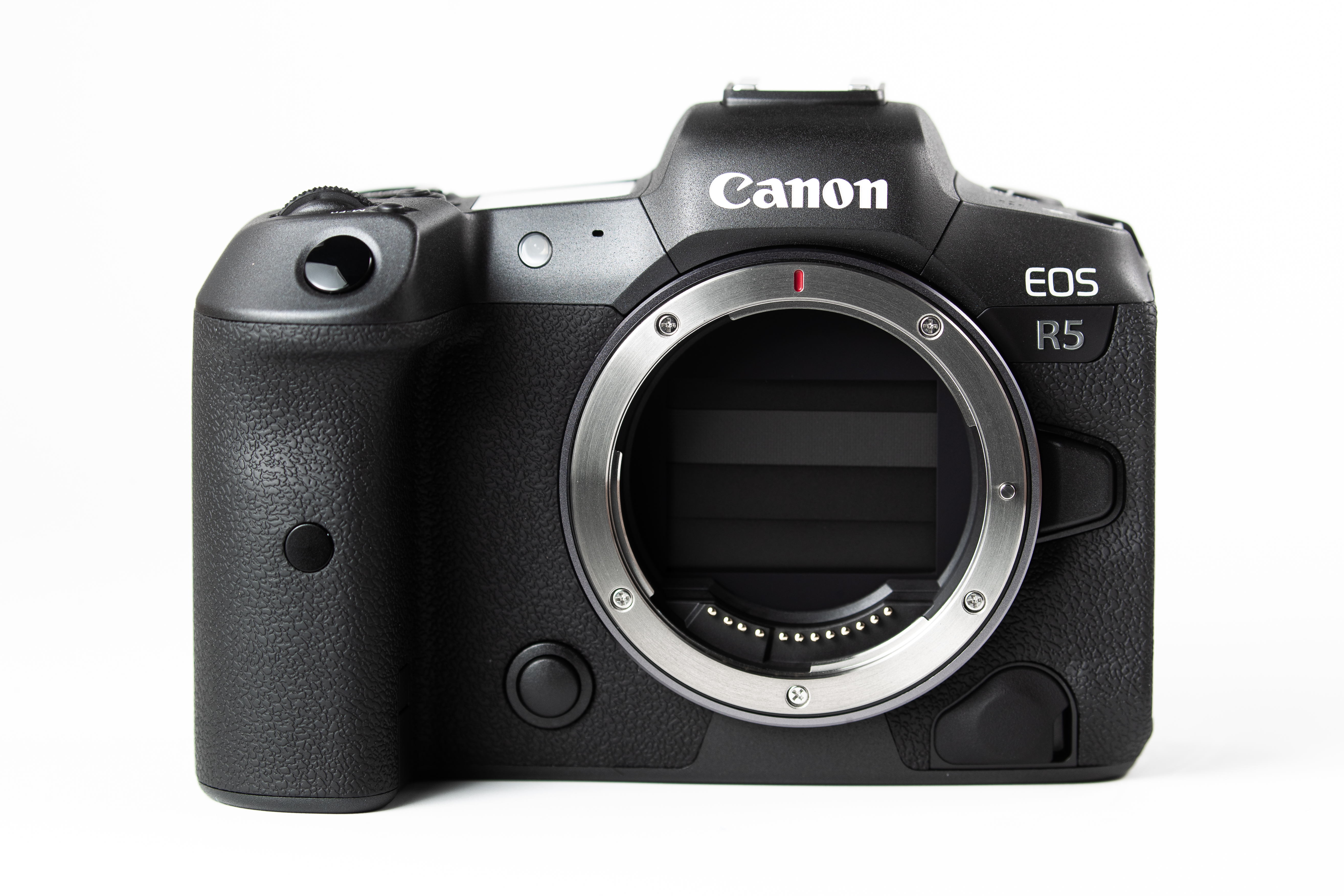 The Canon EOS R5 is photographed in a studio on its release day, Thursday, July 30, 2020.